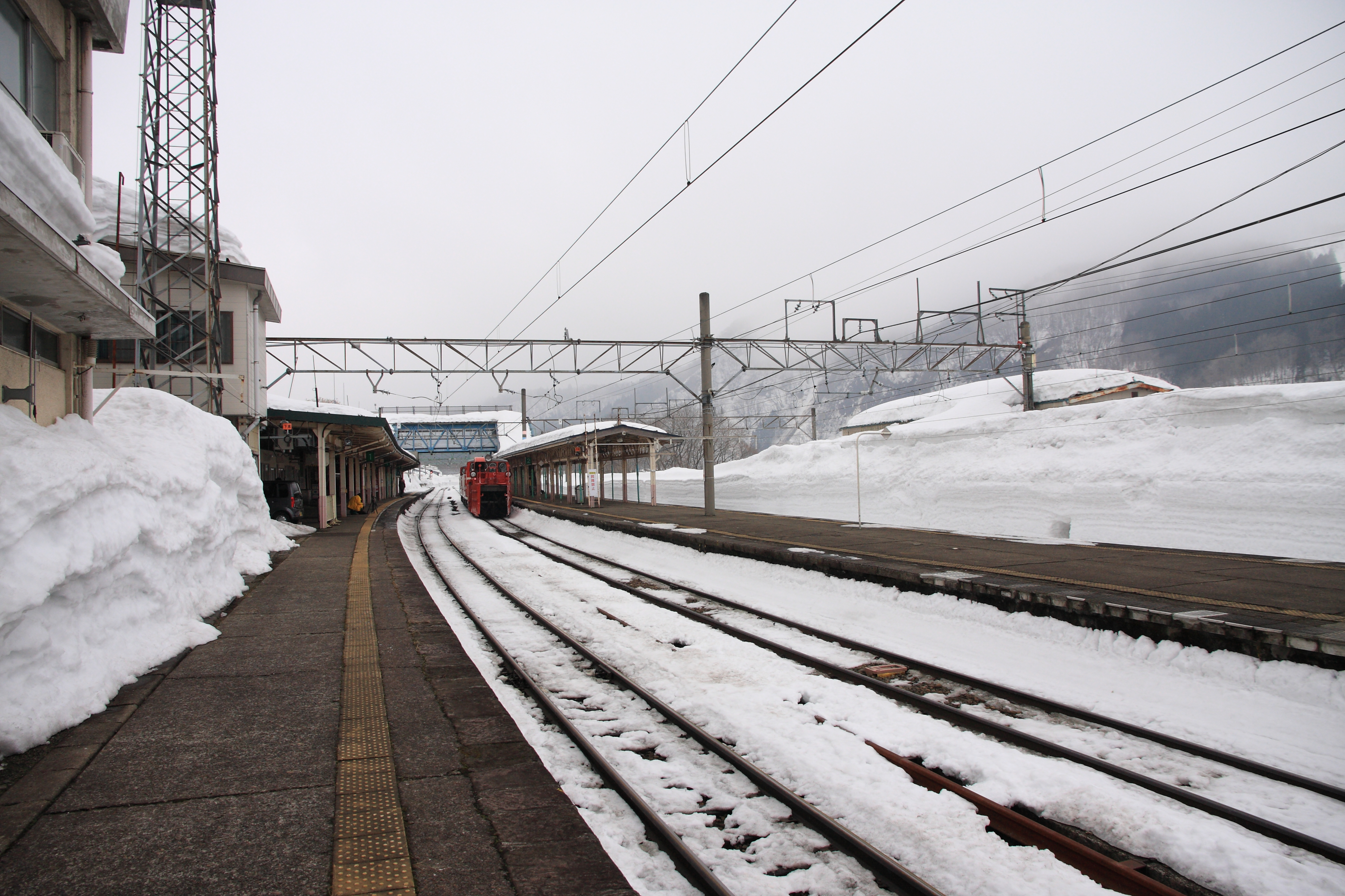 Echigo Tokimeki Railway and Shinano Railway Myoko-Kogen Station